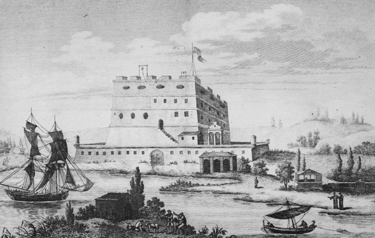 The Monastery of the Redeemer on Strofades Islandsς, copper engraving by Andre Grasset Saint-Sauver from the book "Voyage historique...", Paris, 18th century